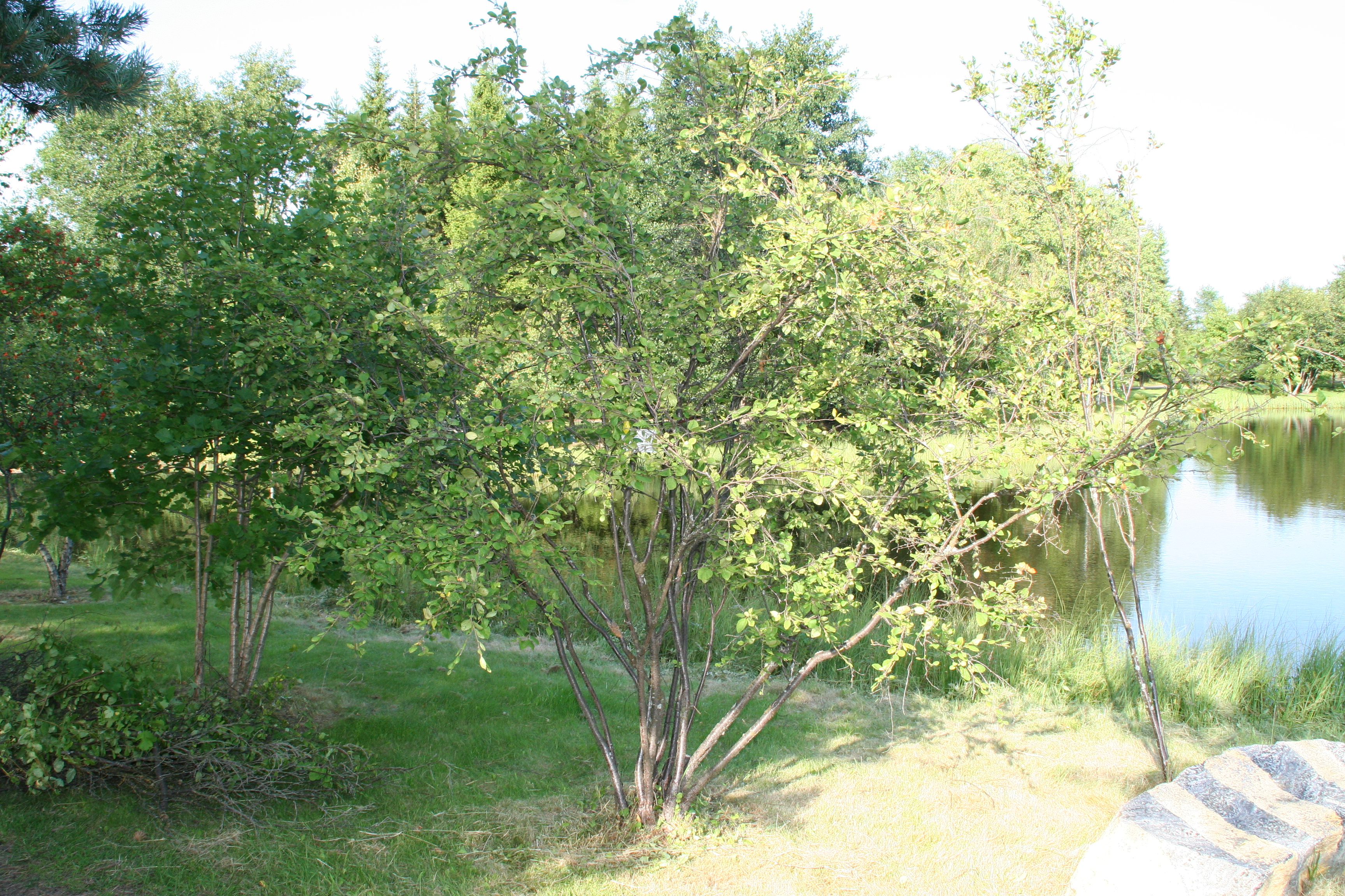 Betula fruticosa in summer. Oulu University Botanical Gardens, Finland.